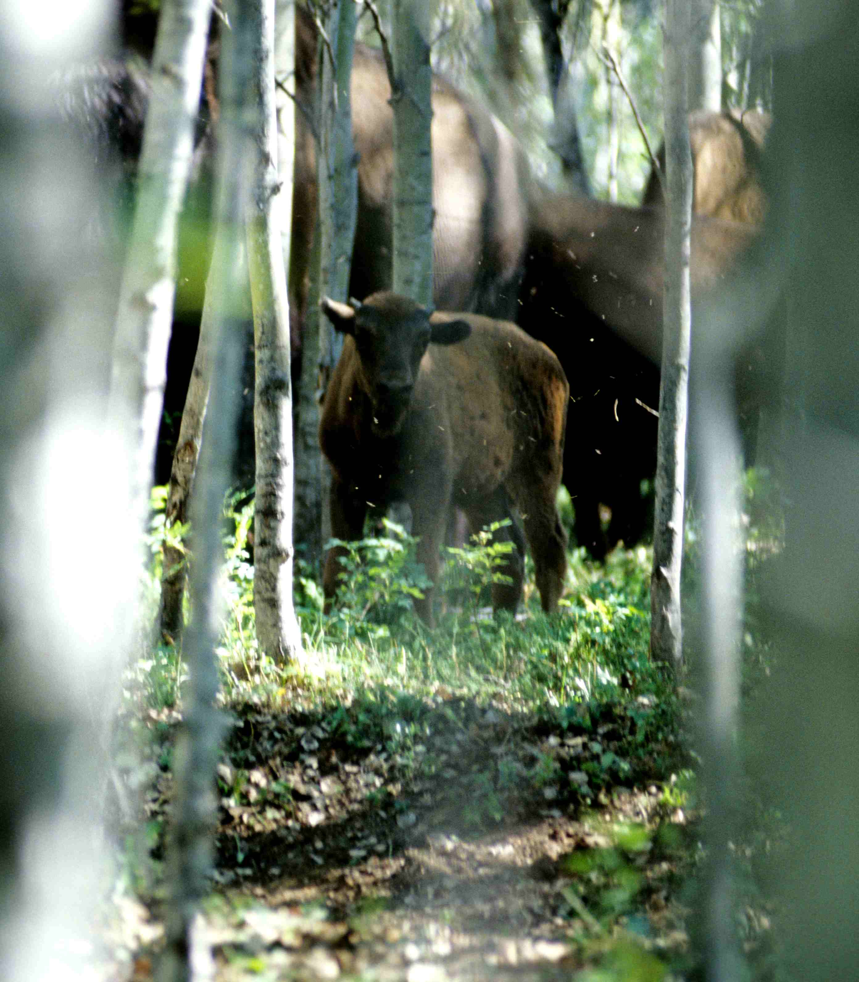 Wood Buffalo Calf (Bison bison athabascae) in Wood Buffalo National Park, Canada